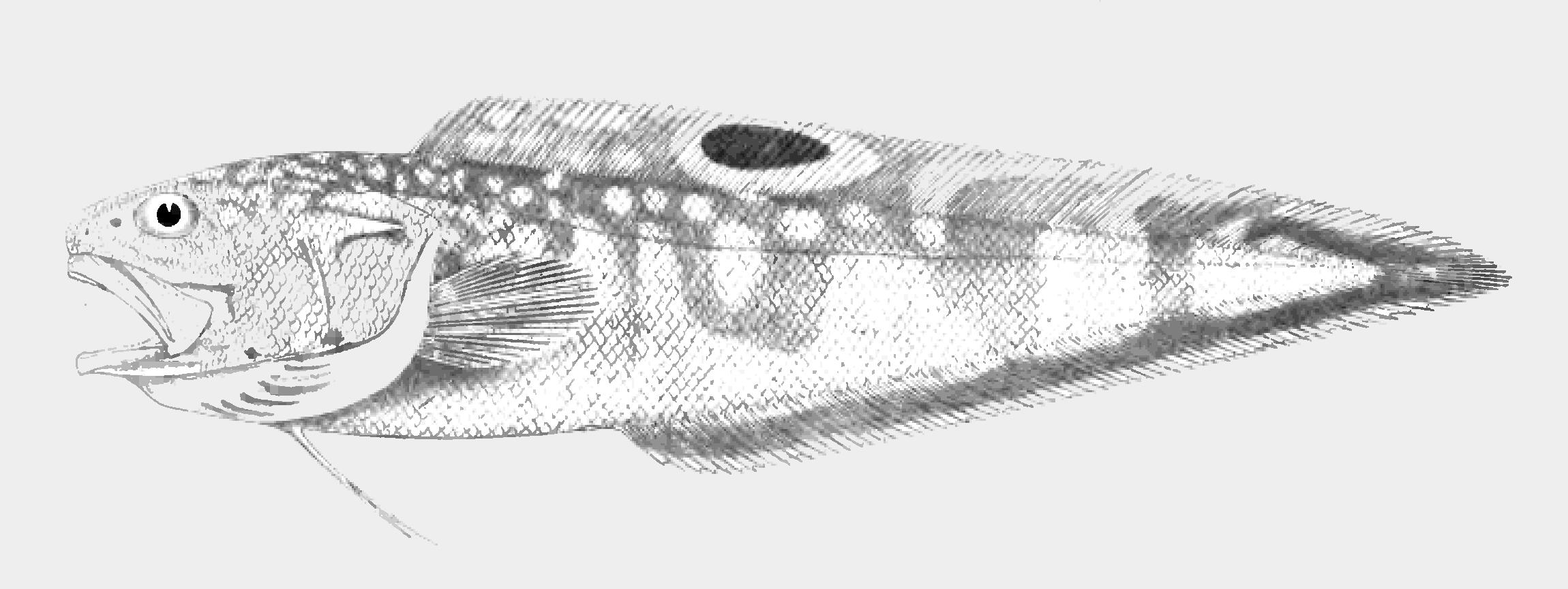 Neobythites steatiticus